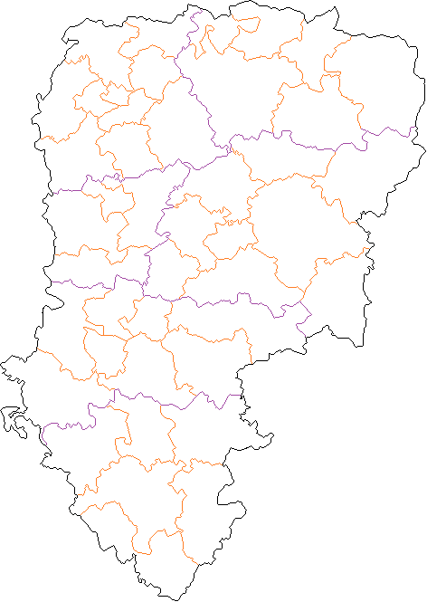 Maps of zone and paish of Roman Catholic Diocese of Soissons